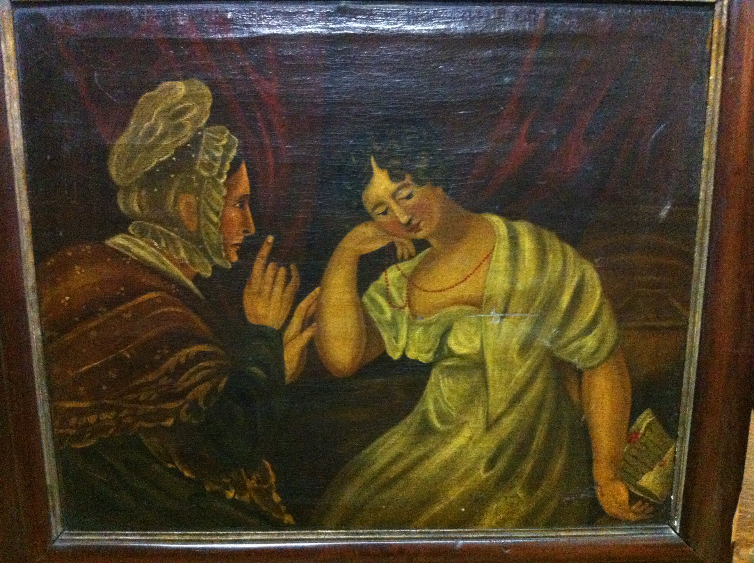 This is an original oil painting by artist Henry James Richter that was painted around 1816. There is a handwritten poem on a wooden slide out from the bottom of the painting. The poem, entitled "The Love Letter", was authored by Letitia Elizabeth Landon. The painting depicts a scene from Sir Walter Scott's book, "The Antiquary". The painting is currently in a private collection.